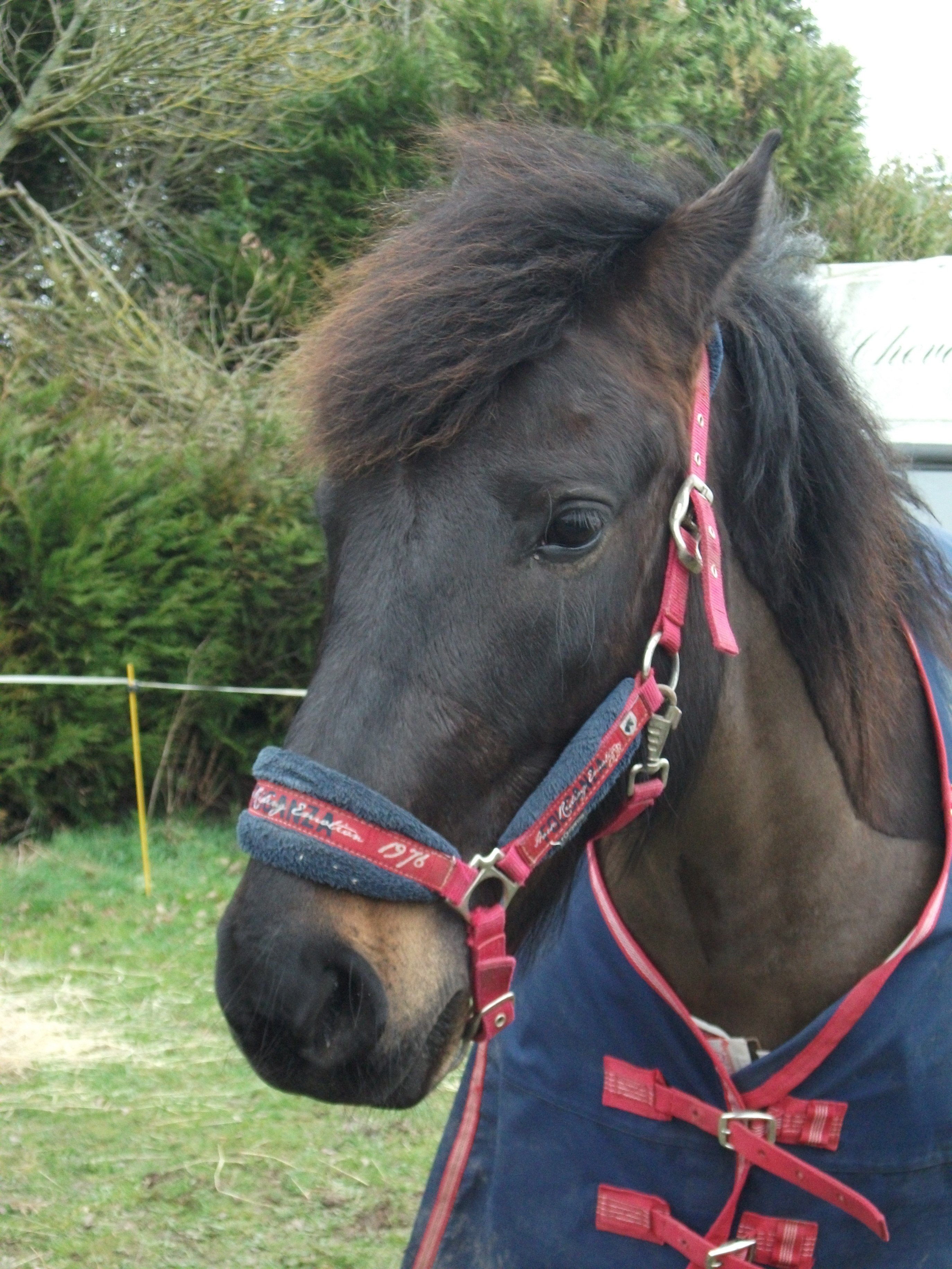 Head of Tic Et Tac de Seix, castillonnais horse